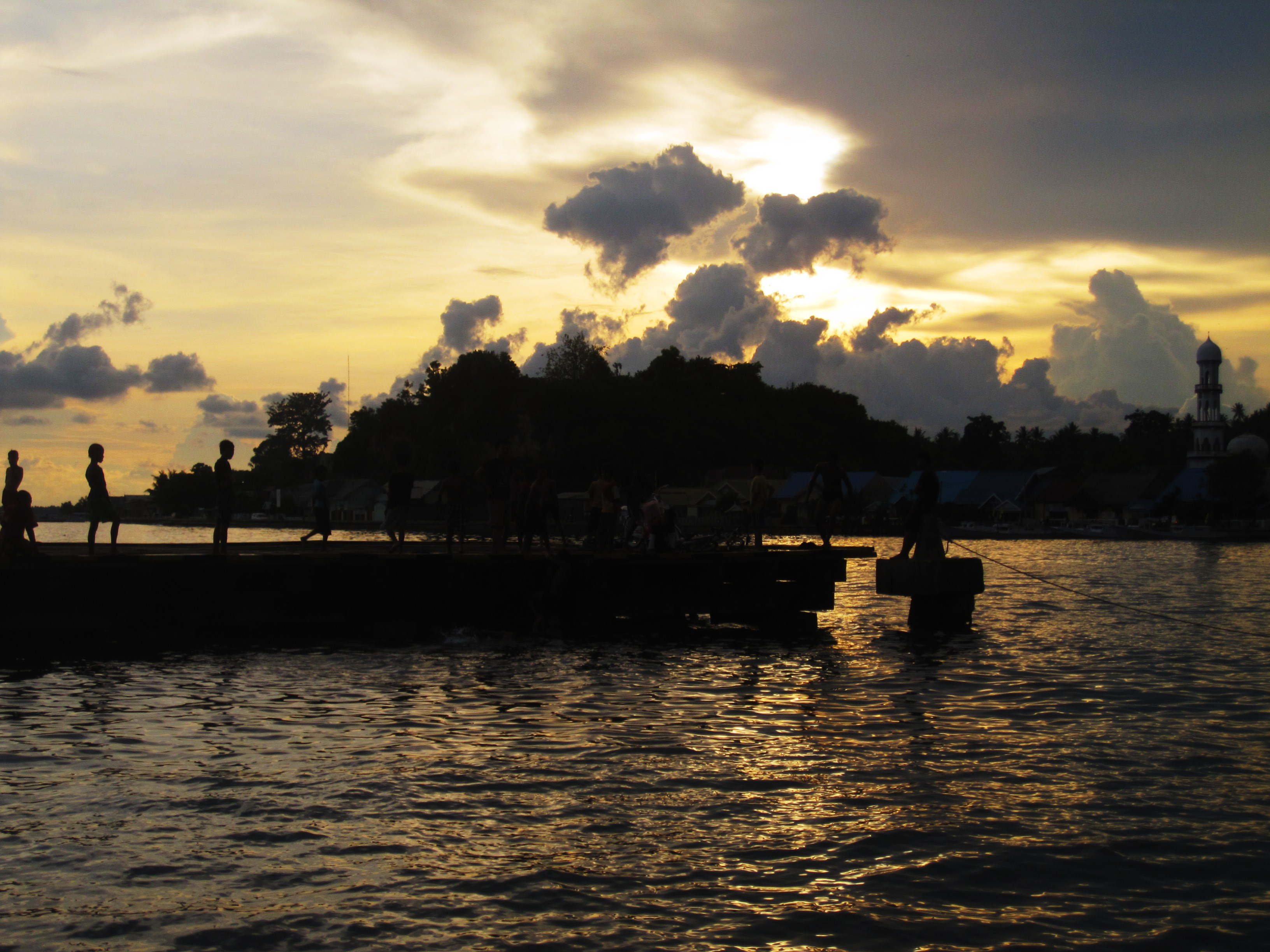 Sunset Over the Harbor in Majene